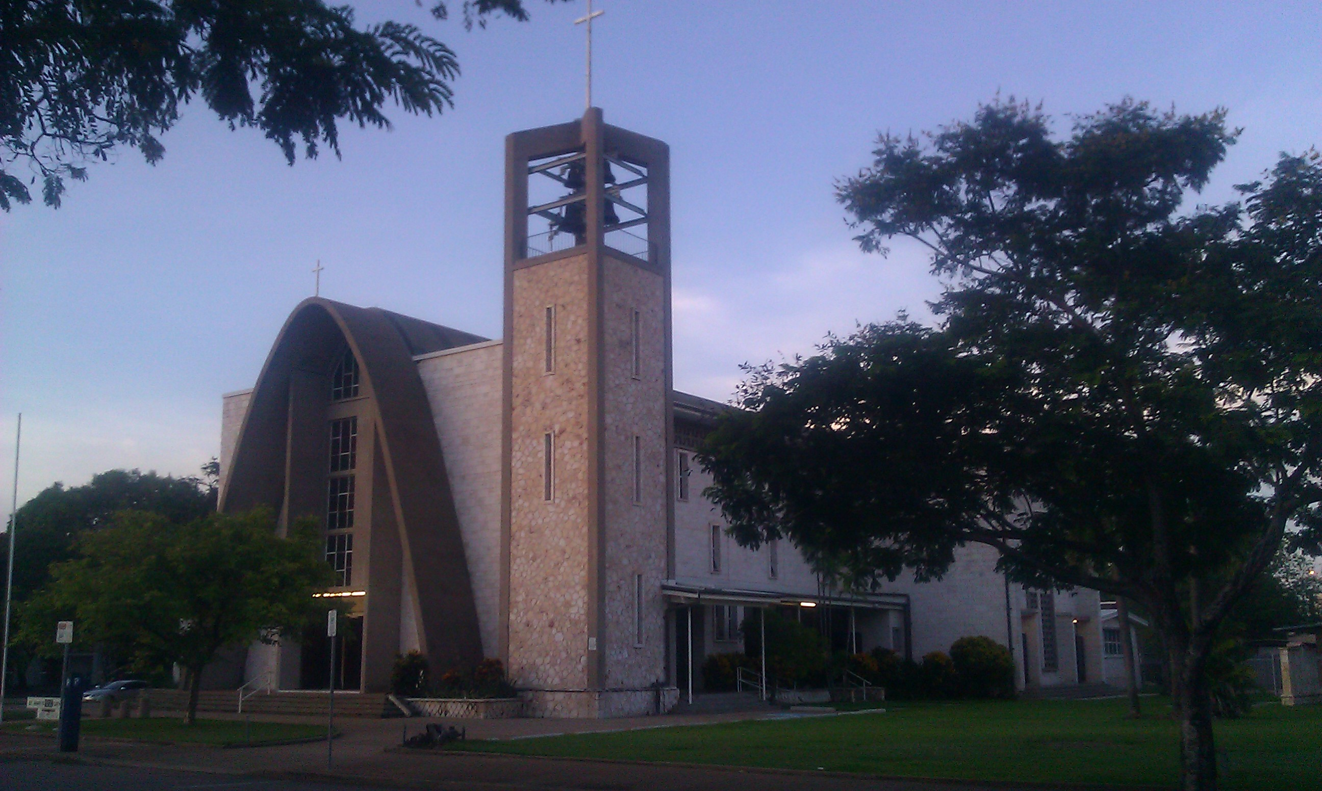 St Mary's Cathedral (Roman Catholic) in Darwin, NT, Australia